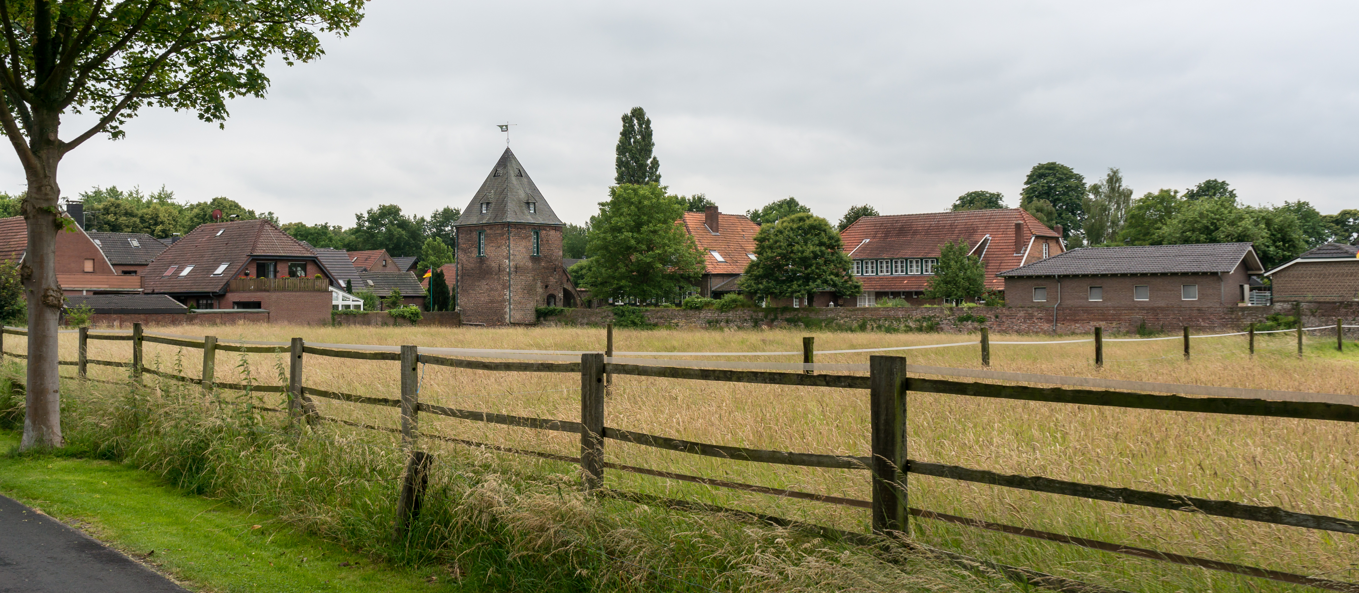 Krudenburg, Hünxe, North Rhine-Westphalia, Germany